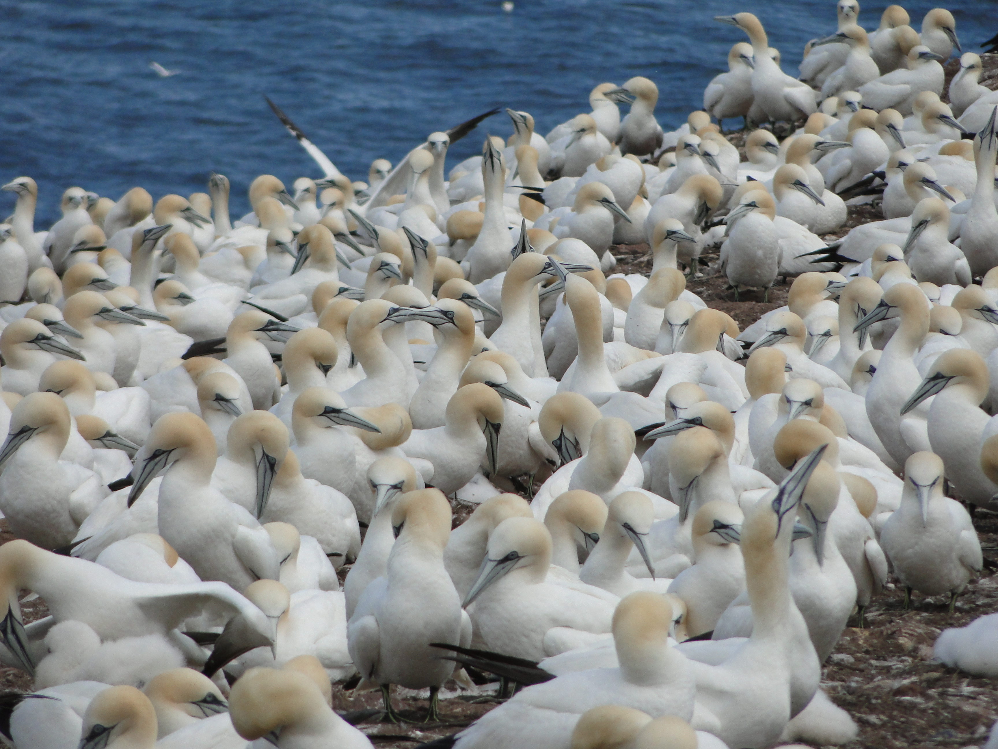 A nothern gannet colony in Quebec